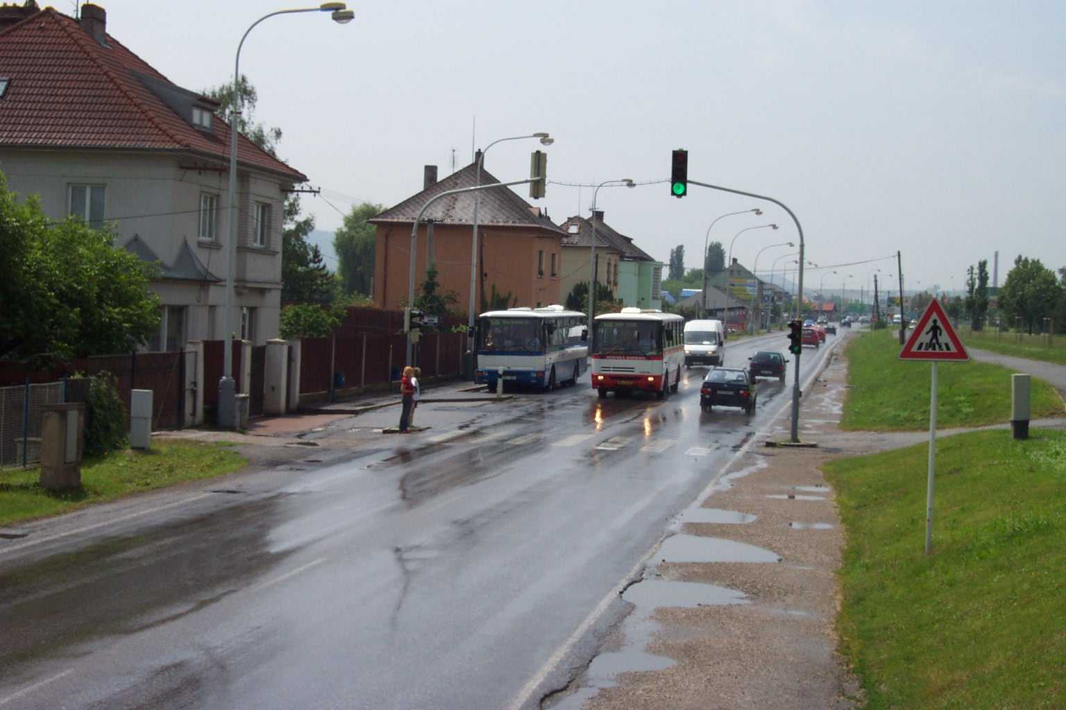 Intercity and city bus in Beroun